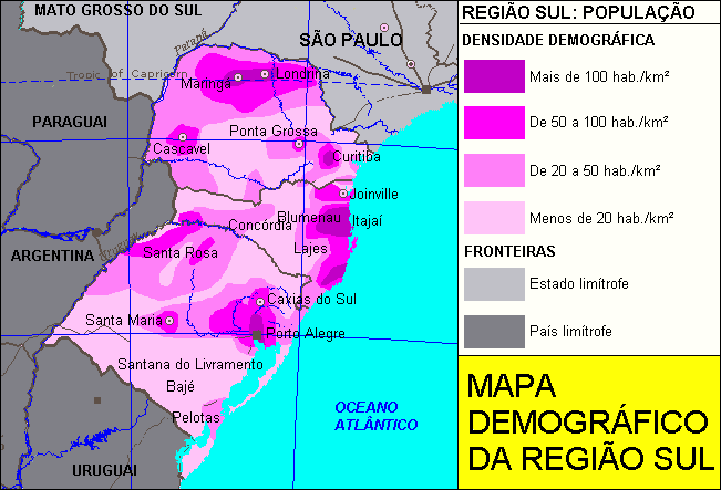 South of Brazil demographic map.